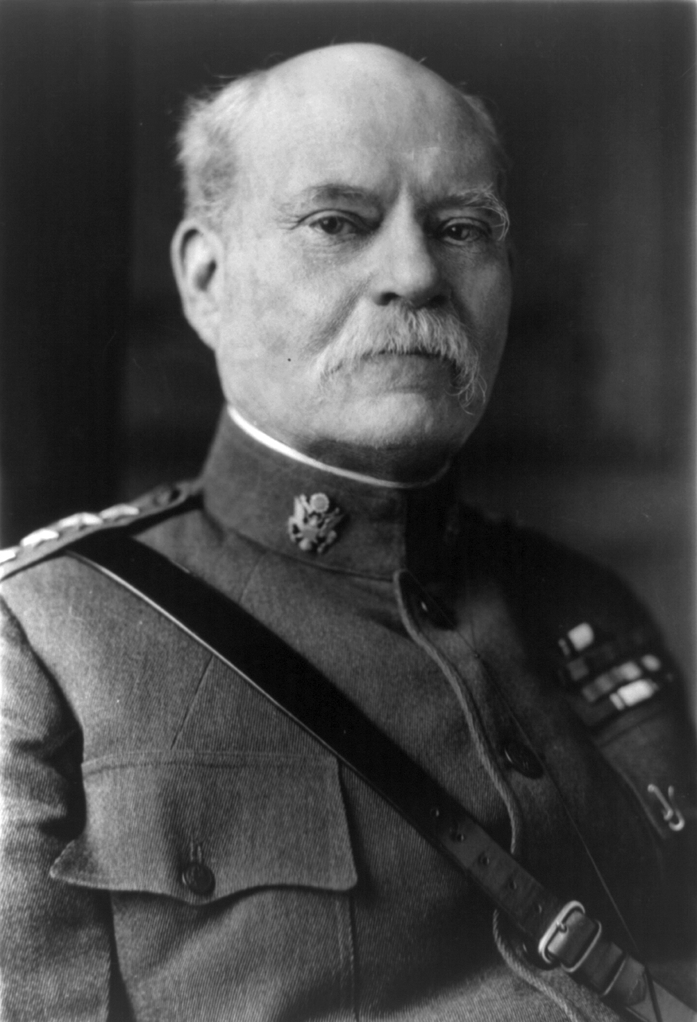 General Tasker Bliss during World War I. Promoted to U.S. Army Chief of Staff on 22 September 1917. He was promoted to Major General, U. S. Army on 20 November 1915 and to full General on 6 October 1917. On 17 November 1917 he was assigned as the American Permanent Military Representative, Supreme War Council, concurrent with the U.S. Army Chief of Staff position.